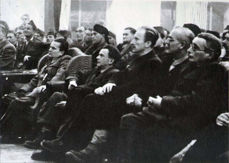 Second AVNOJ conference in the Bosnian town of Jajce.